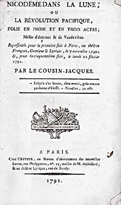 Title page of "Nicodème dans la lune" by French playwright Louis Abel Beffroy de Reigny